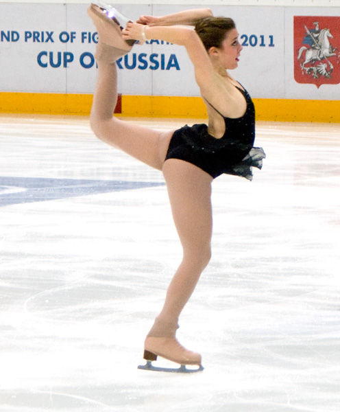 2010 Cup of Russia, short program.